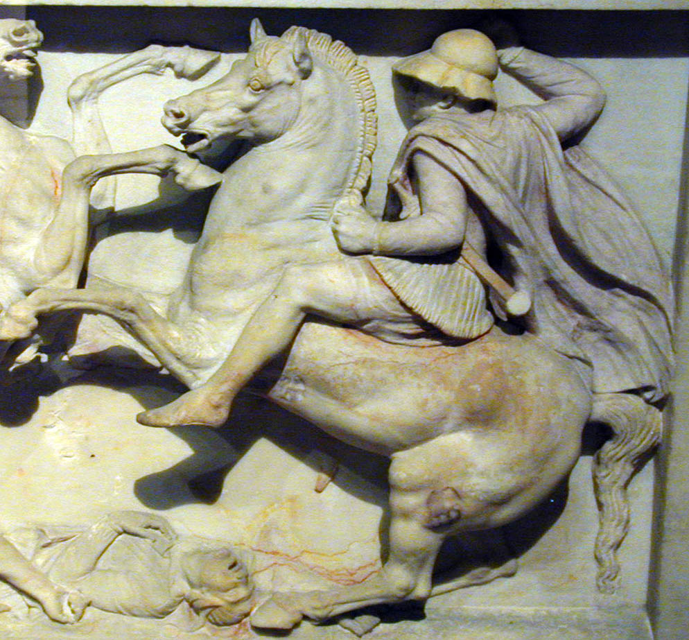 Thessalian (?) cavalryman on the Alexander Sarcophagus (Istanbul Archaeological Museum). Photograph taken by Marsyas on 06/09/2000.